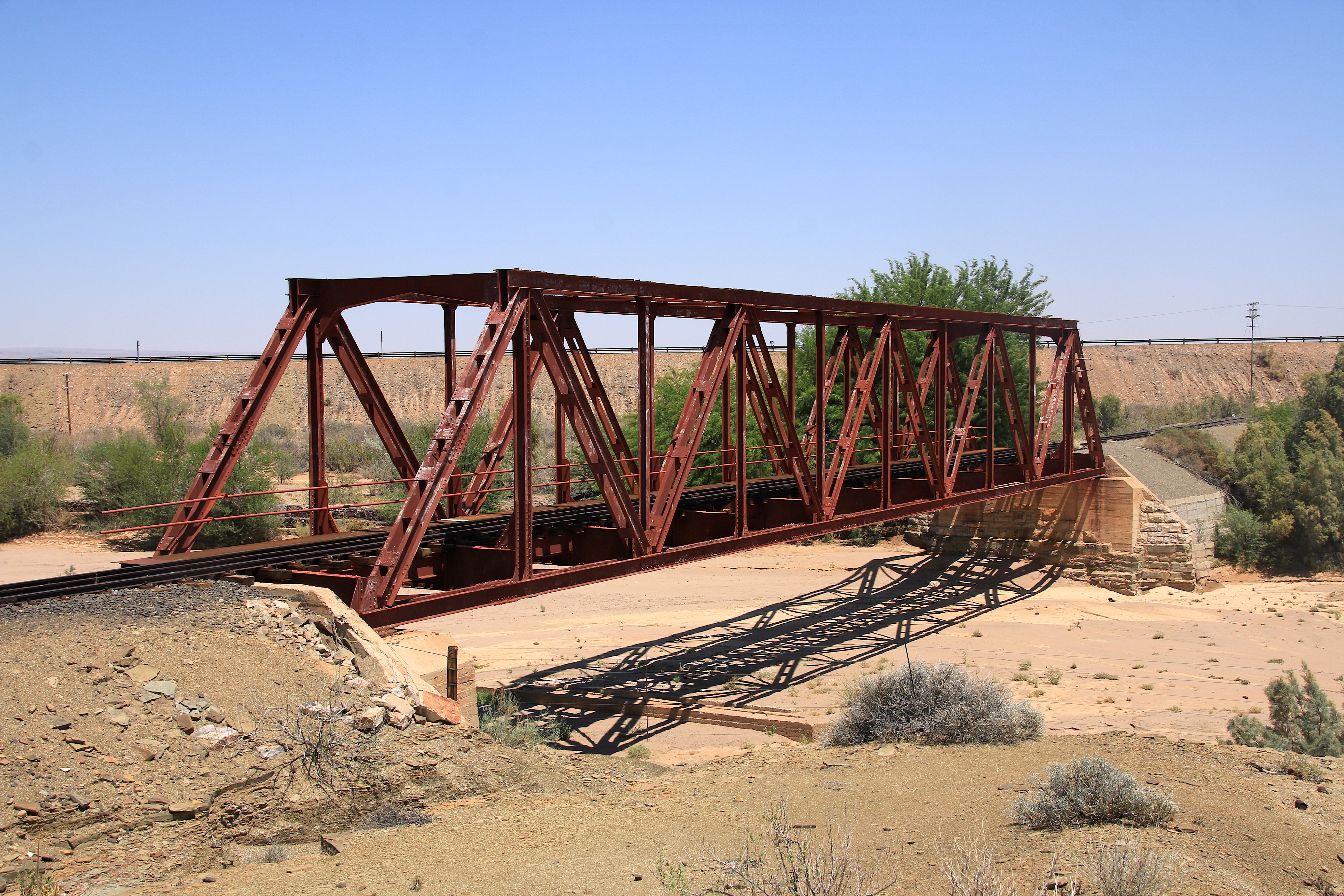 Railway Bridge over Konkiep at Goageb (2018)